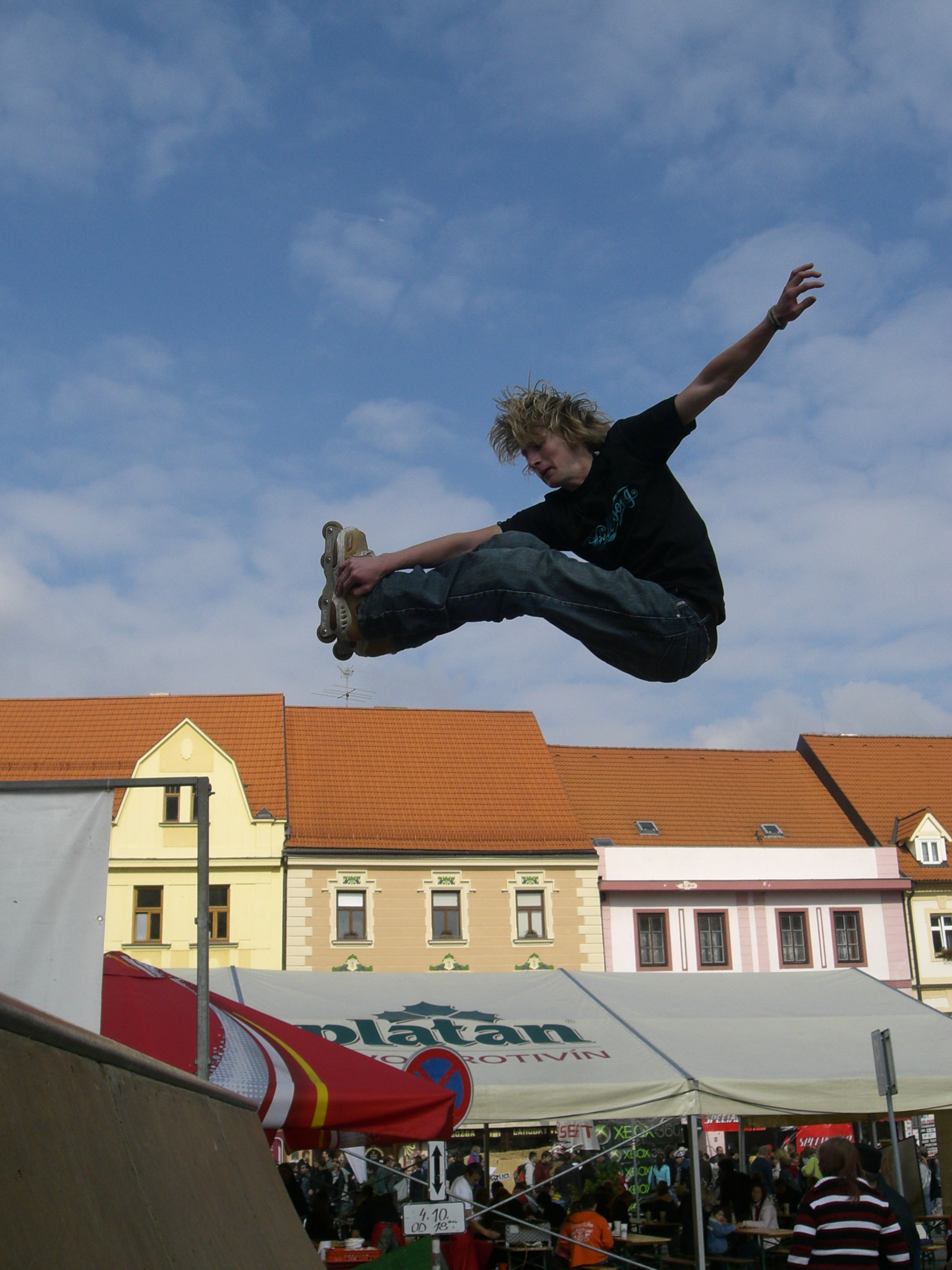 Exhibition of aggressive inline skating in Písek city, Czech Republic. Jump called "fakie 180 rocket air".